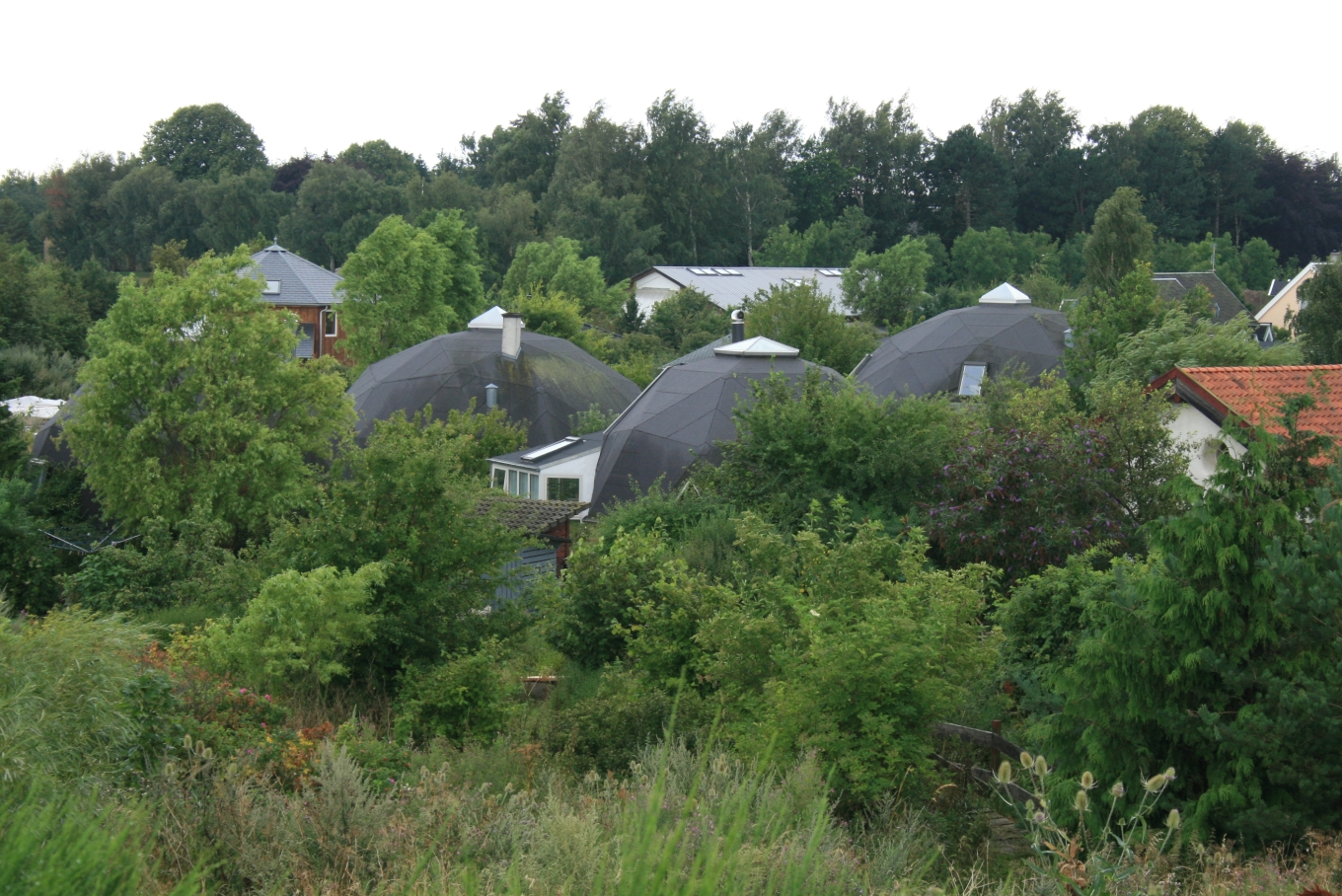 The village society of "Dyssekilde" at Torup, northern Sealand, Denmark